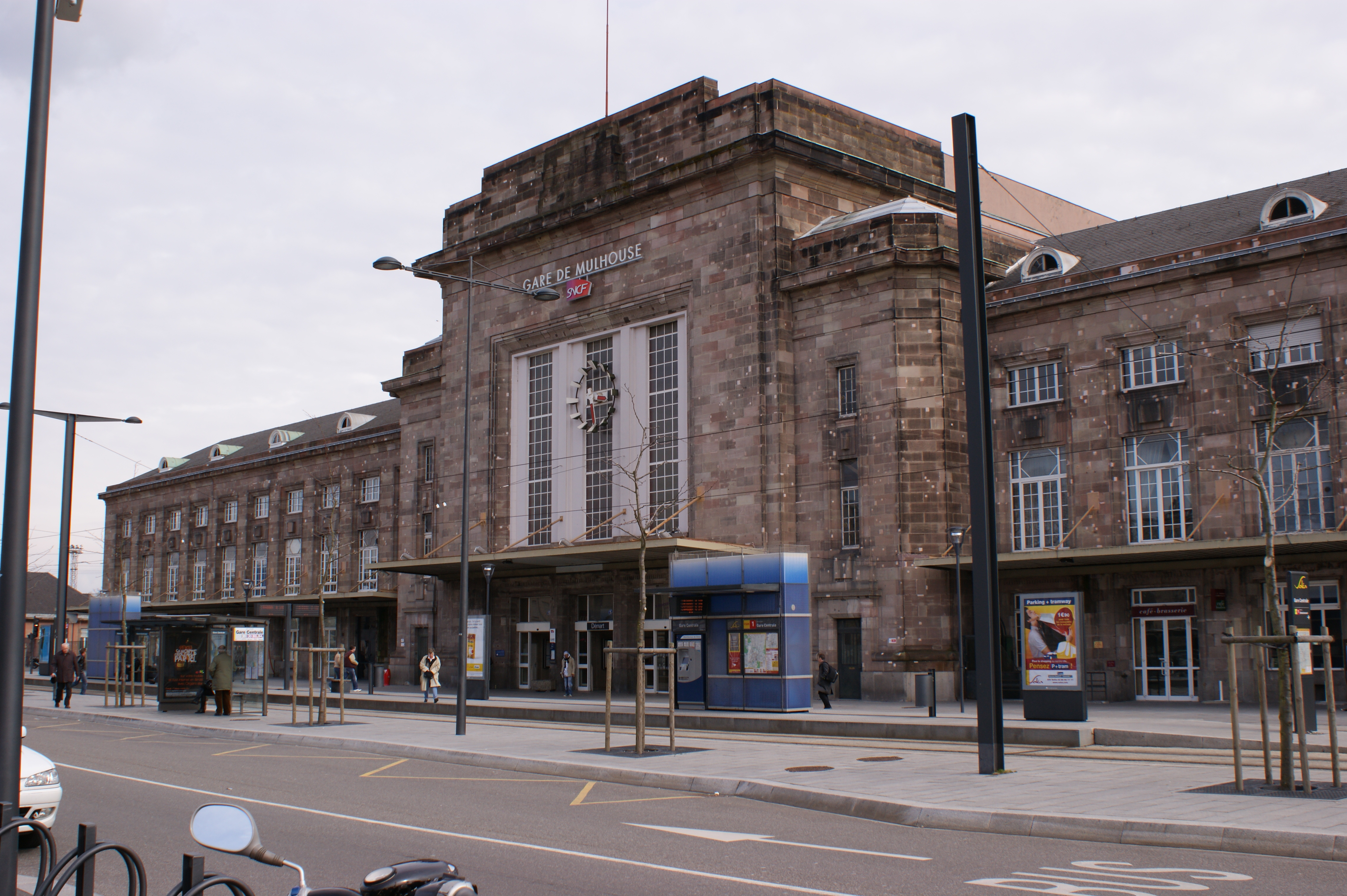 Mulhouse Ville Station, 3/09.